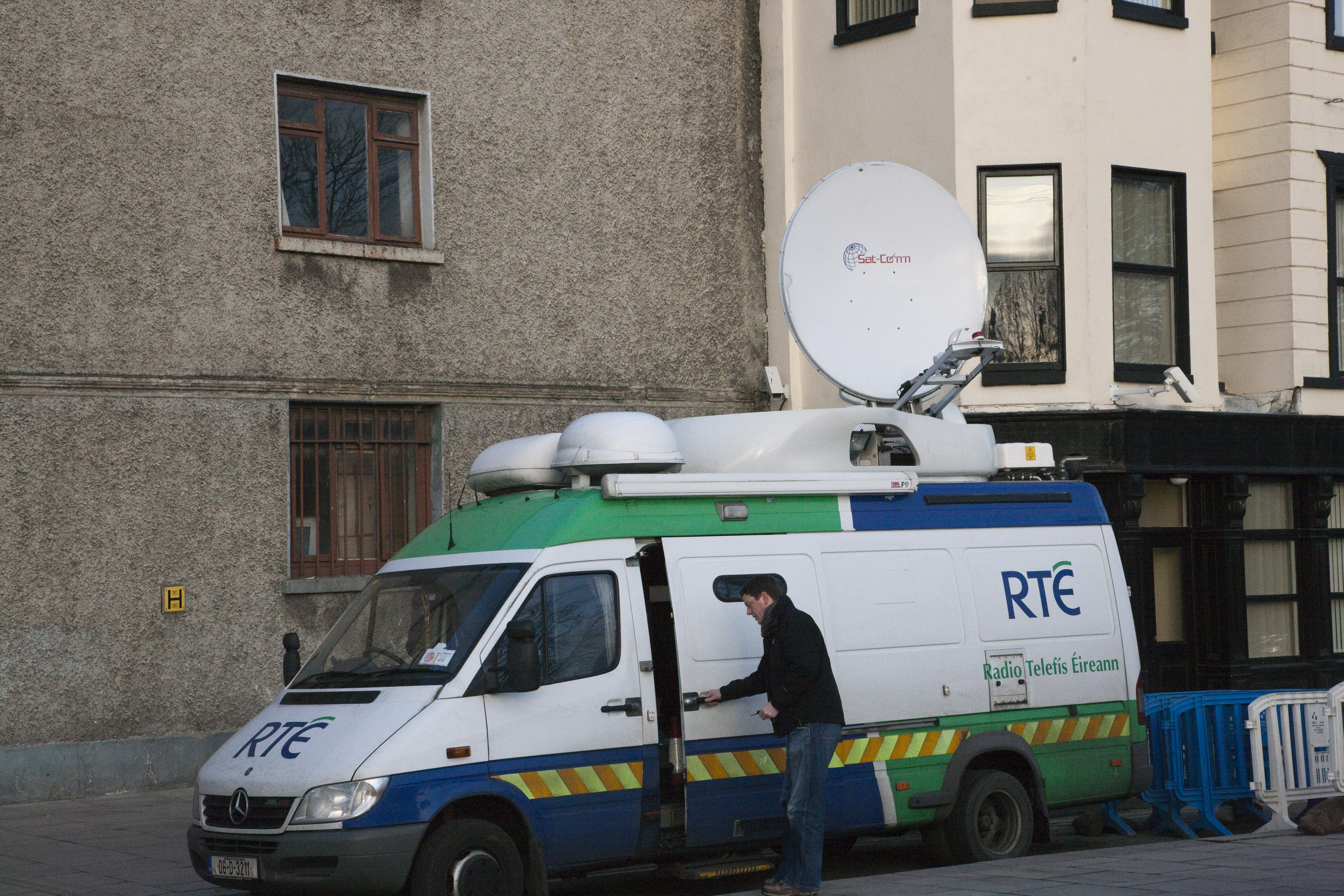 RTÉ Outside Broadcast Unit - Covering a Fire At the Guinness Brewery